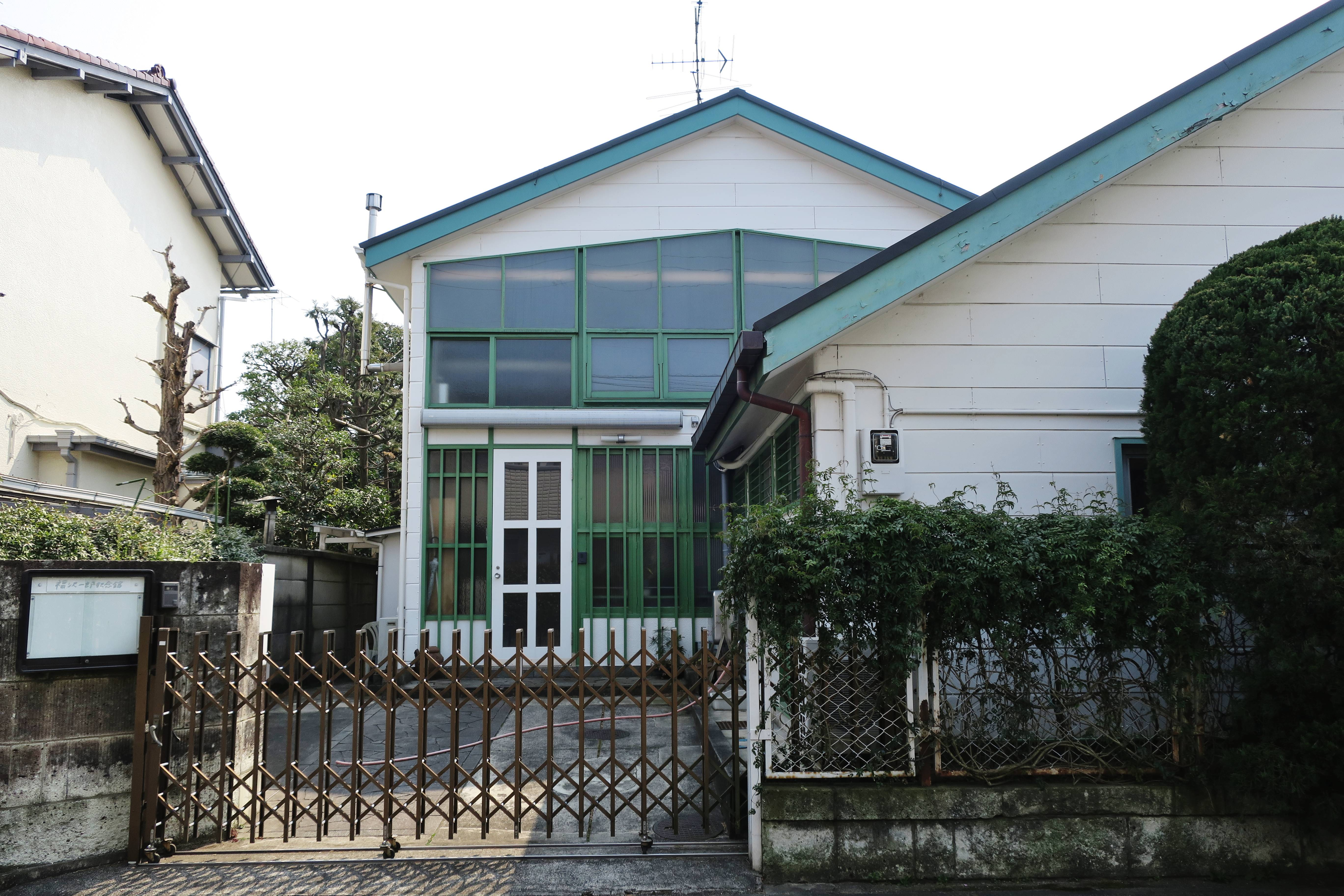 Fukuzawa Ichiro Memorial Museum.